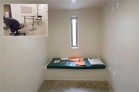 David Hicks's cell in Guantanamo, and the bookless "library".